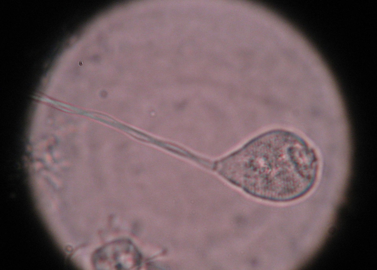 Vorticella viewed with an optical microscope (40x)